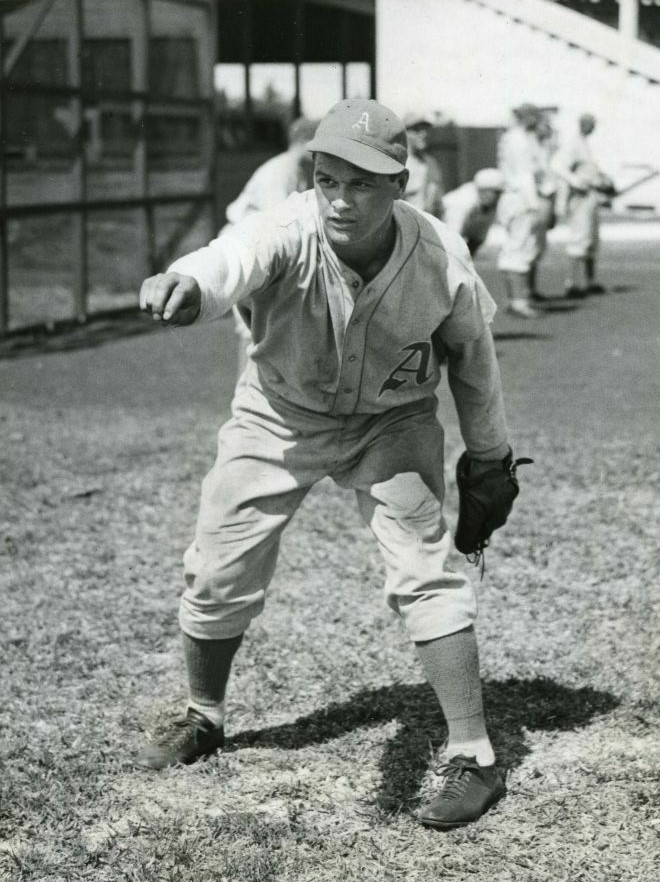 Black & White photo of Philadelphia Athletics professional baseball player Emil Roy, 1934